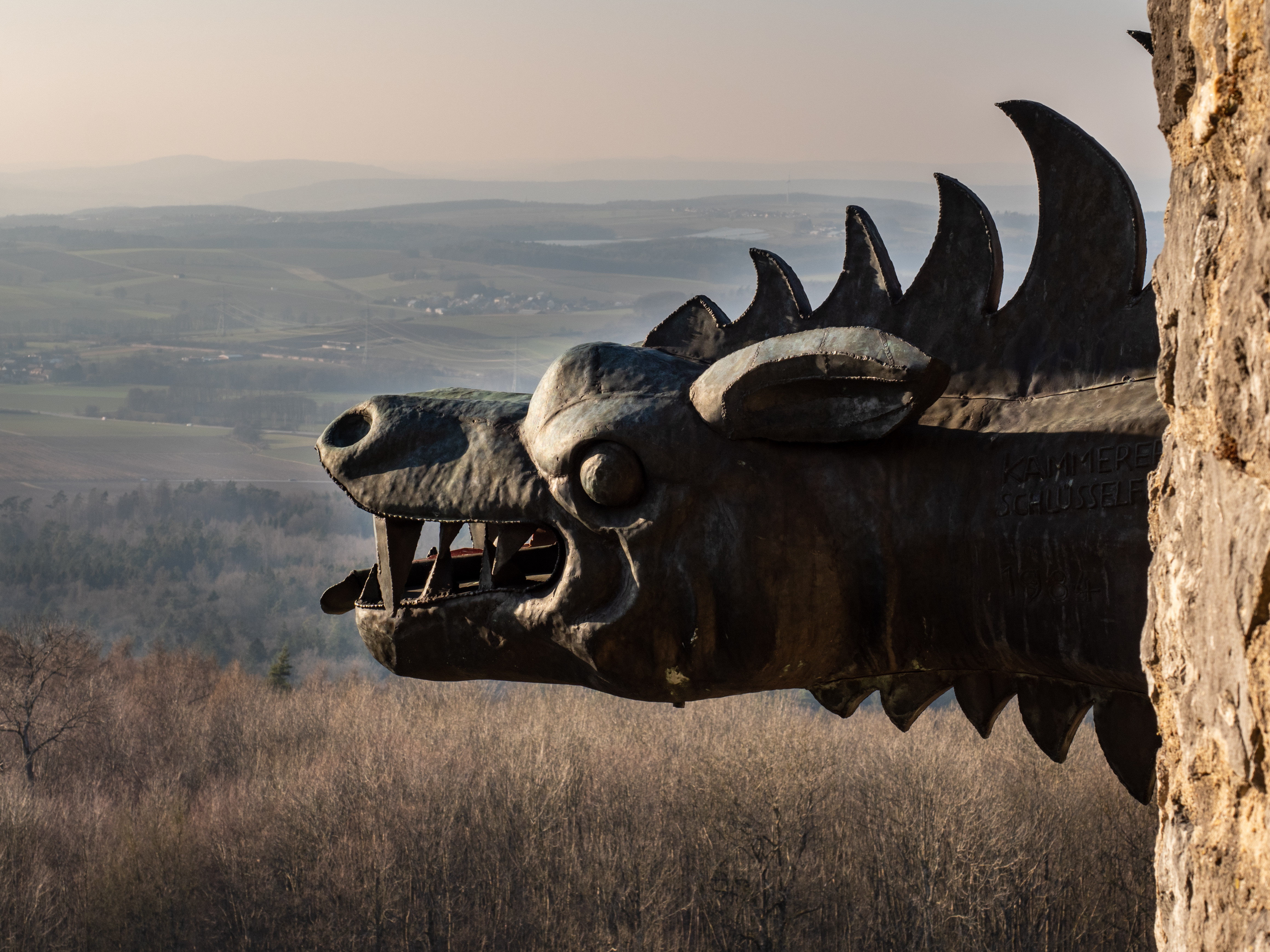 Gargoyle at the Giechburg near Scheßlitz in Upper Franconia